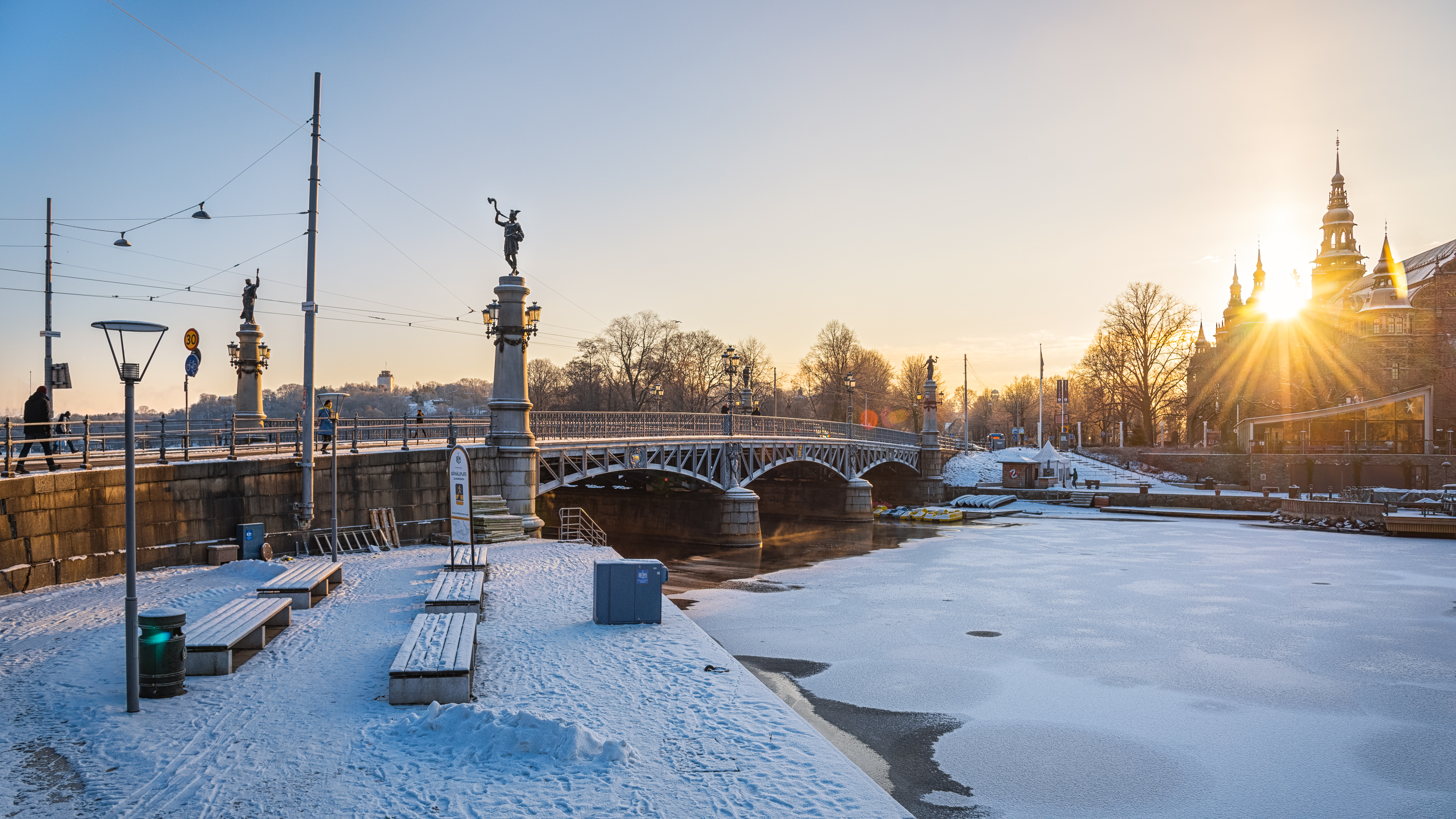 Djurgårdsbron in the morning, towards the island Djurgården, Stockholm. The sun is rising above Nordiska museet.